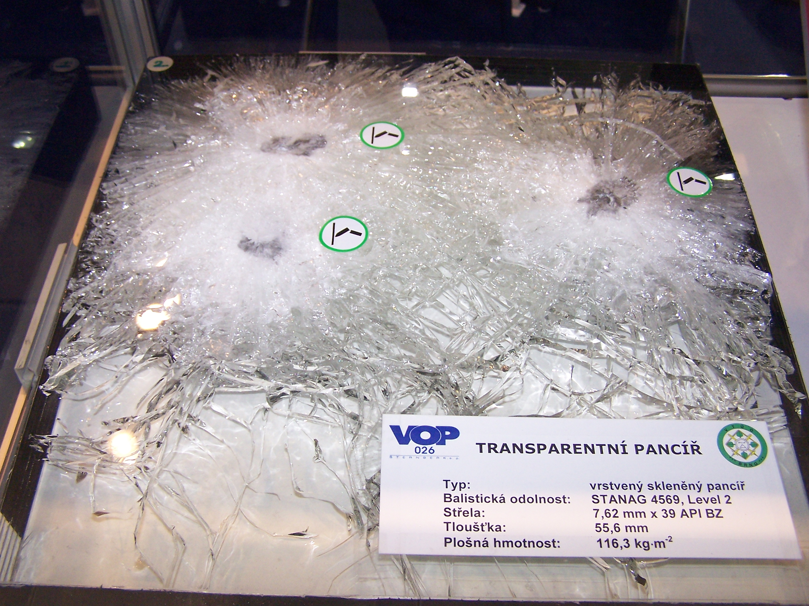 Bulletproof safety glass ballistic test. Layered glass-polymer composite, 55.6mm thick, 116.3 kg/m2, ballistic resistance level 2. From IDET 2007 fair in Brno.